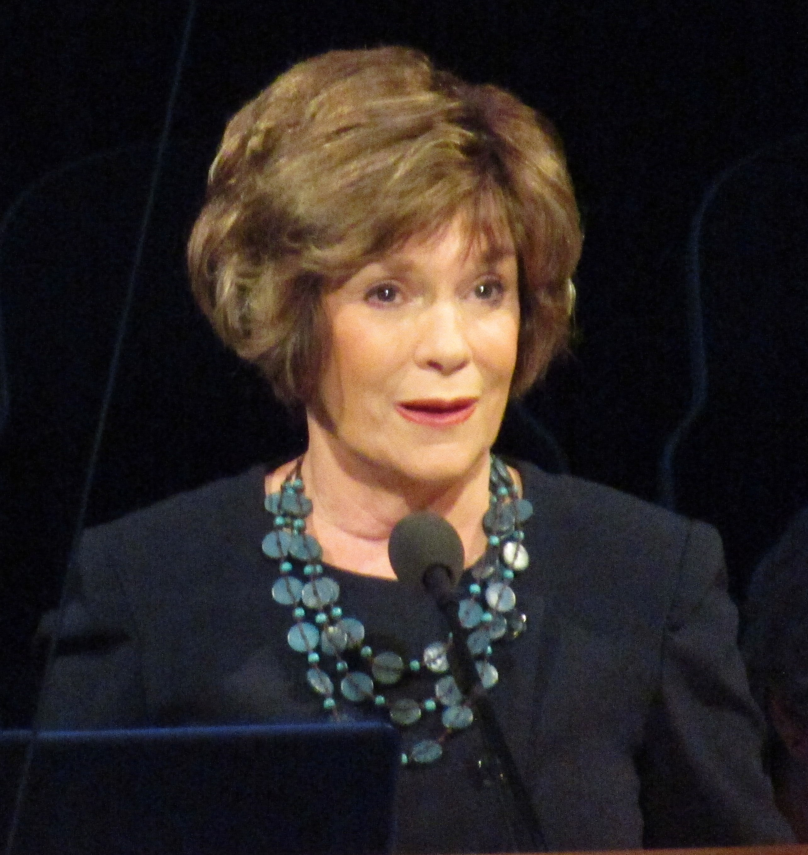 Susan Easton Black speaking at the BYU Women's Conference.